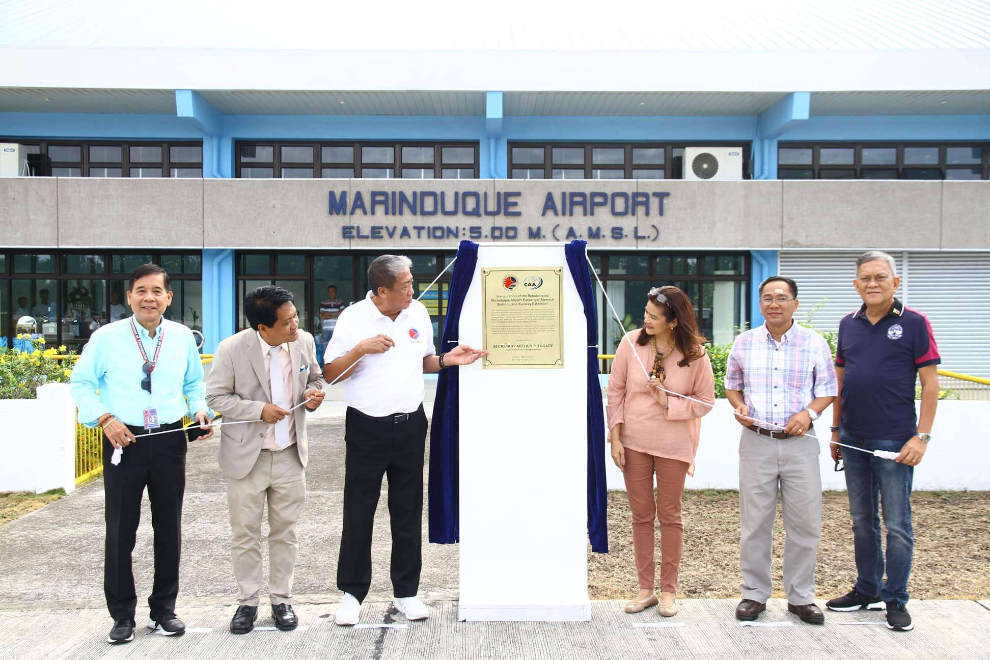 The inauguration ceremony for the rehabilitated Marinduque Airport in Gasan, Marinduque in the Philippines. Tagalog: Ang pagpapasinaya sa bagong-ayos na Paliparan ng Marinduque sa Gasan, Marinduque sa Pilipinas.